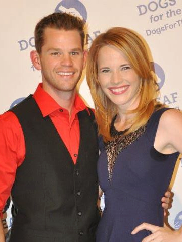 Switched at Birth stars Ryan Lane (left) and Katie Leclerc (right) at a charity event for Dogs for the Deaf in New York City on 13 April 2013.